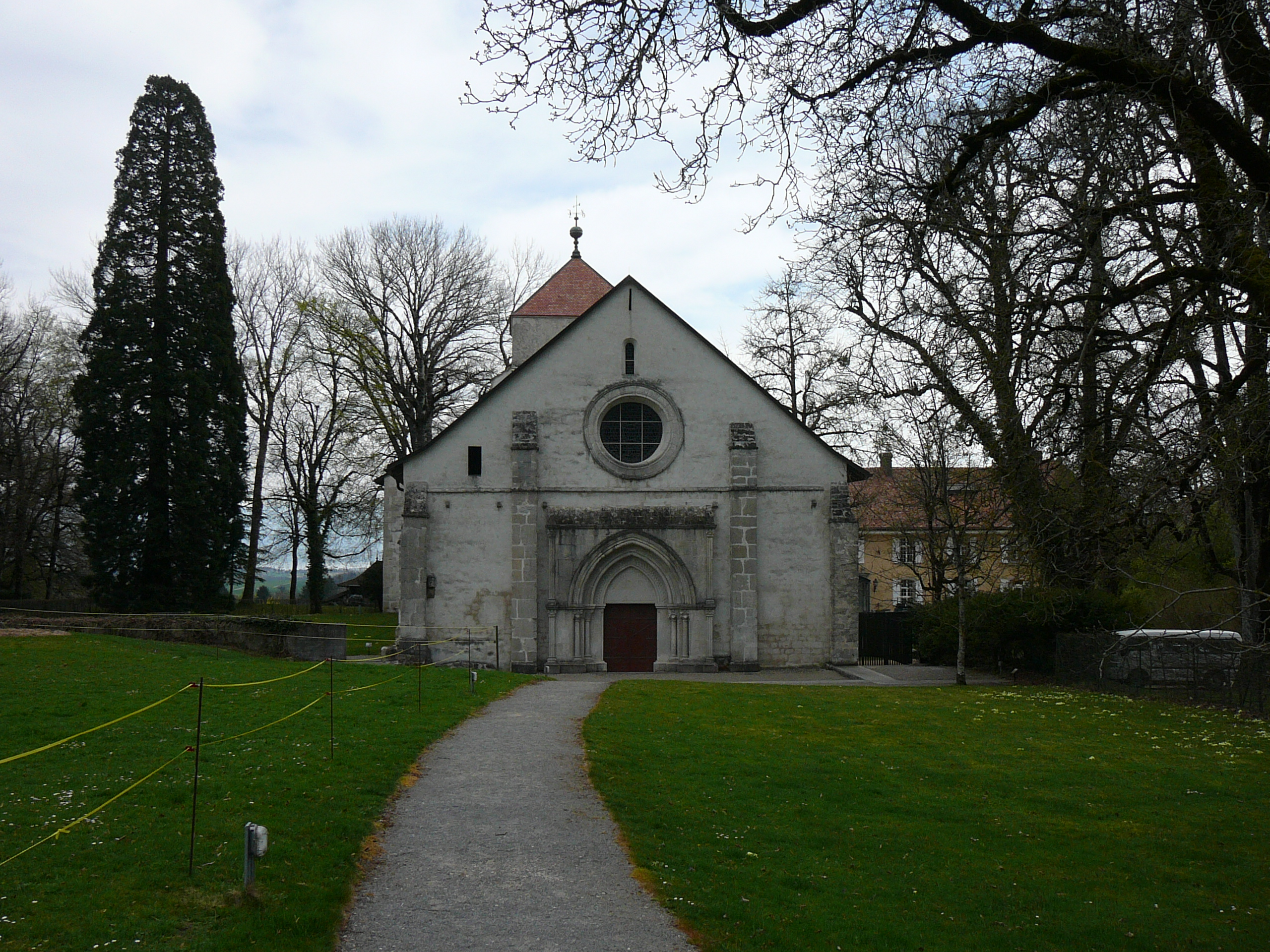 Front view of the Abbaye de Bonmont